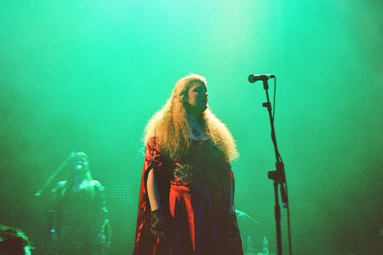 Therion, ProgpowerUK, Cheltenham, March 2006.